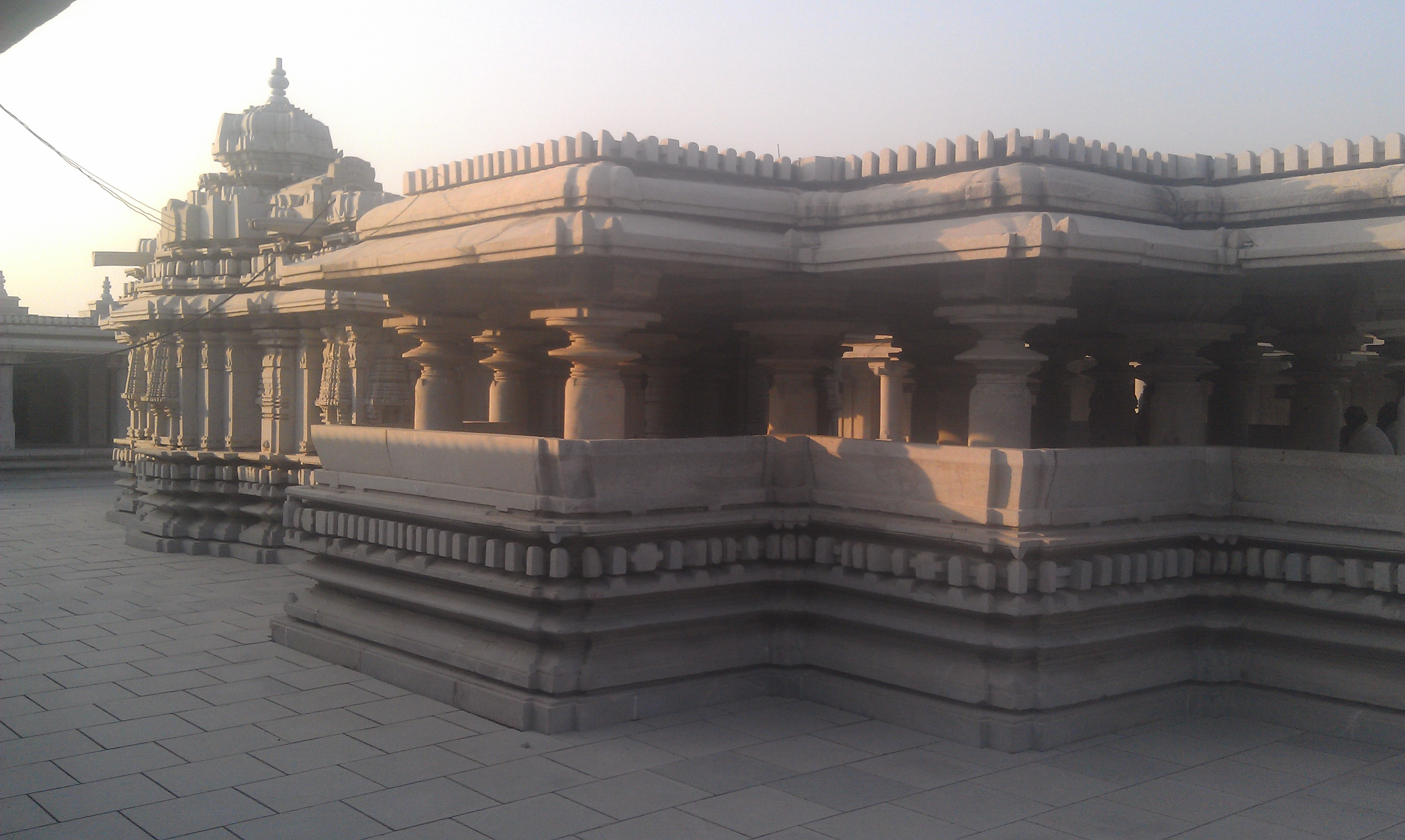 View of the northern side